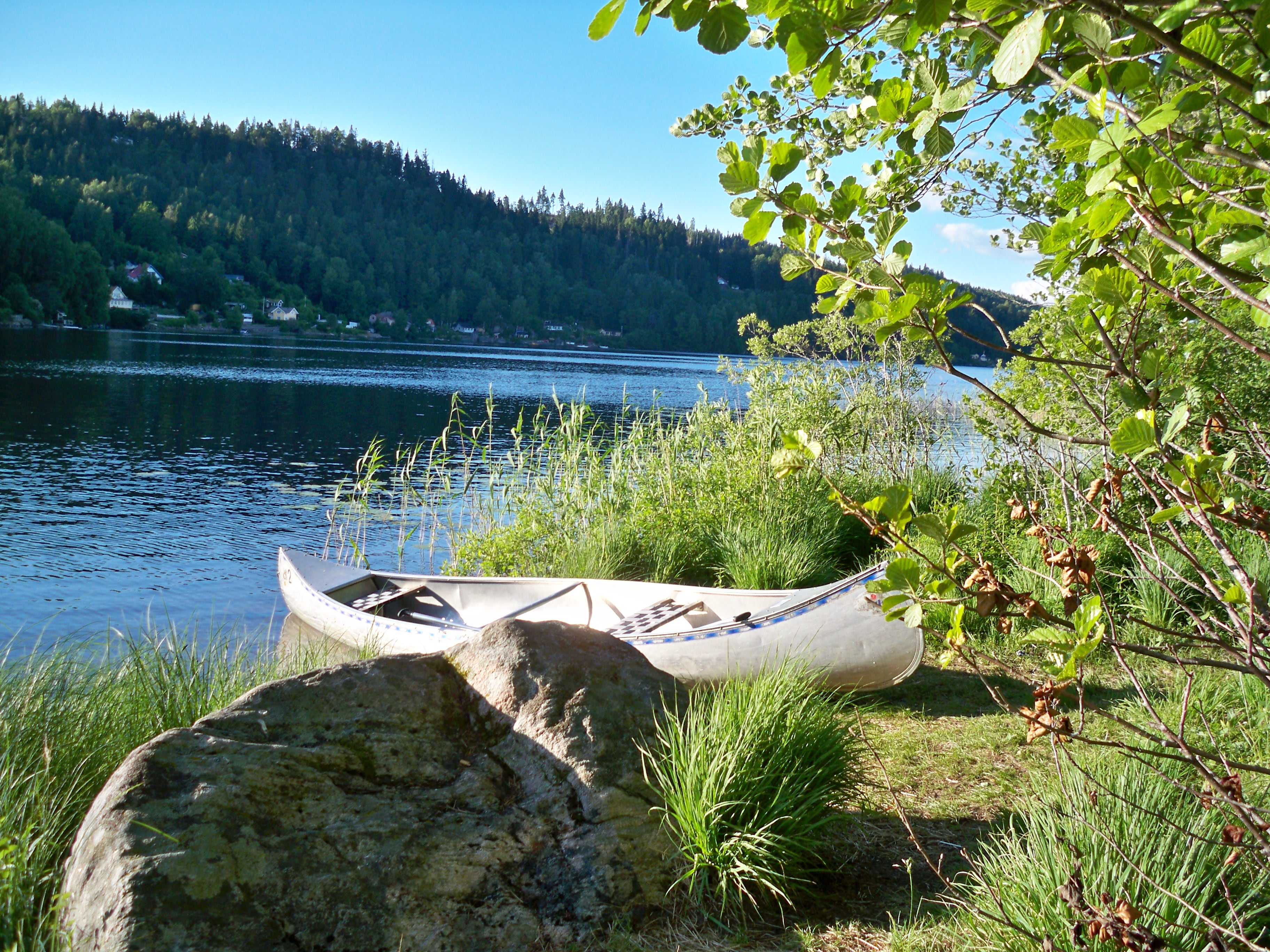 A south side cove of the lake Öresjö at the city of Borås, Sweden.